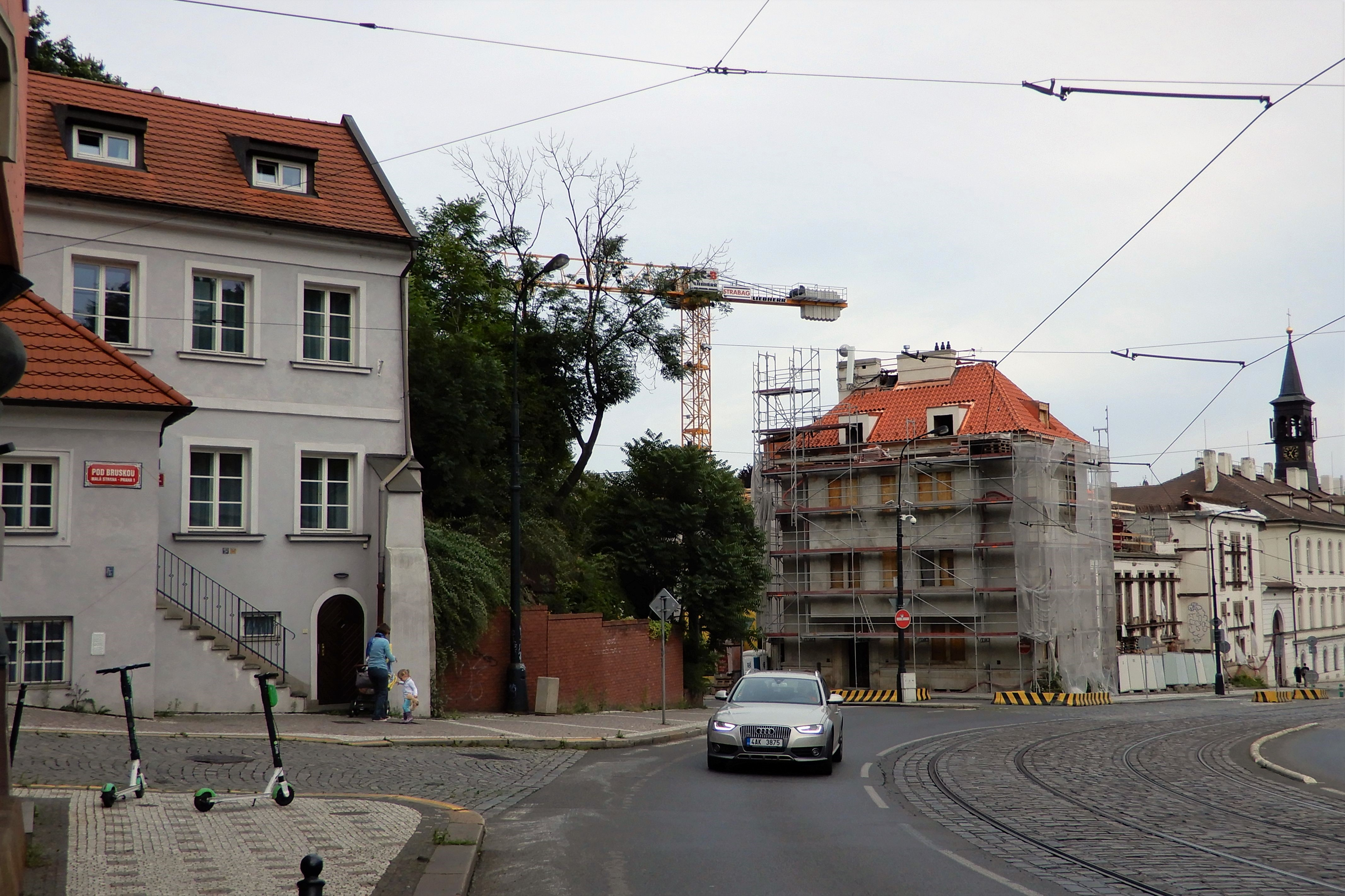 Kunsthalle Prague, view from NW during reconstruction, June 2020